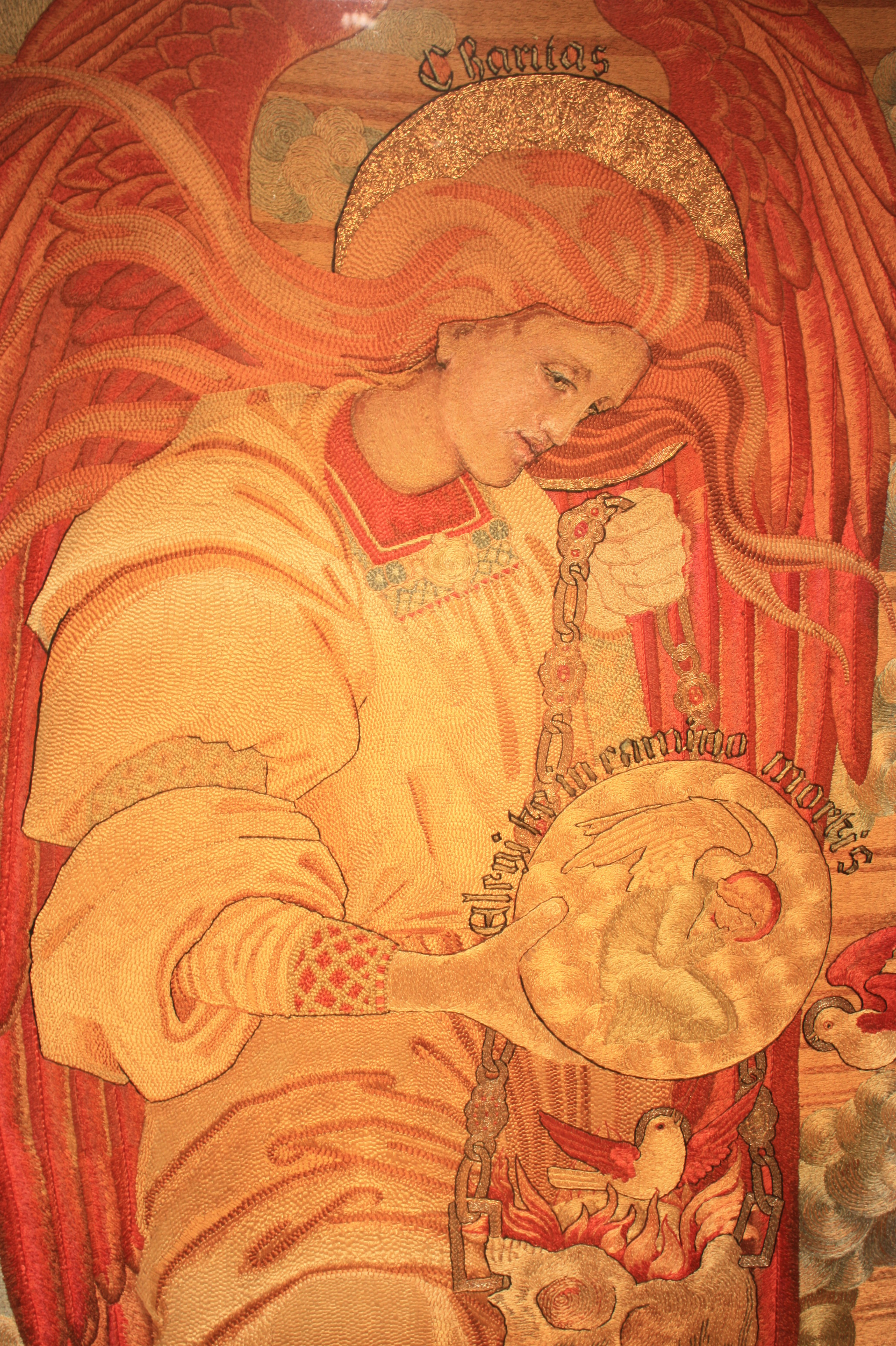 Salvation of Mankind (detail) by Phoebe Anna Traquair 1886 to 1893